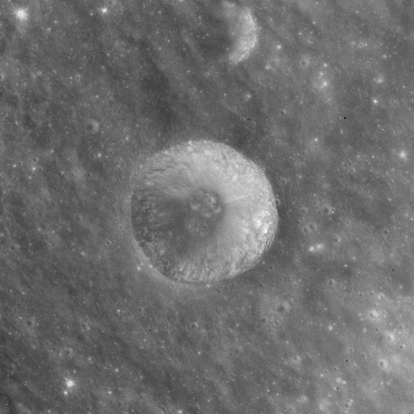 Acosta, on the moon. North at top.